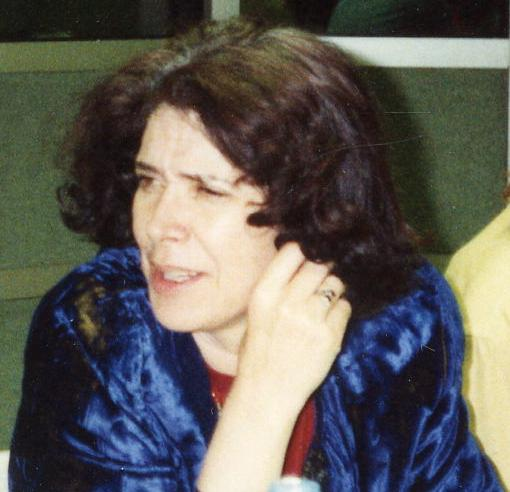 La romancière et poétesse Assia Djebar